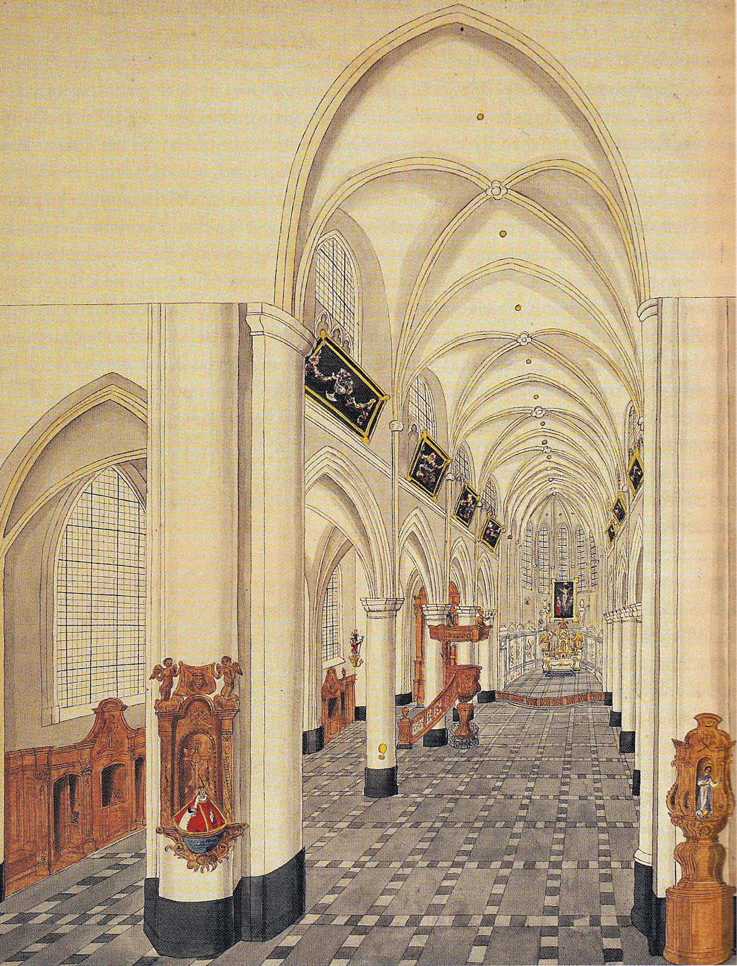 Interior view of the parish church of Saint Nicholas in Maastricht, the Netherlands (demolished in 1838). Coloured drawing by Philippe van Gulpen, ca. 1835, collection RHCL, Maastricht.